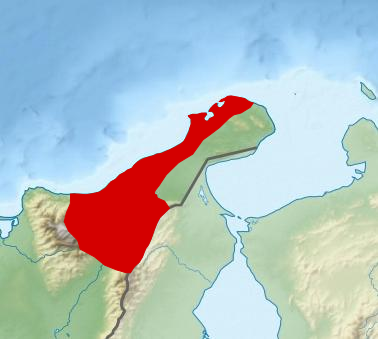 Princia Padilla 1860